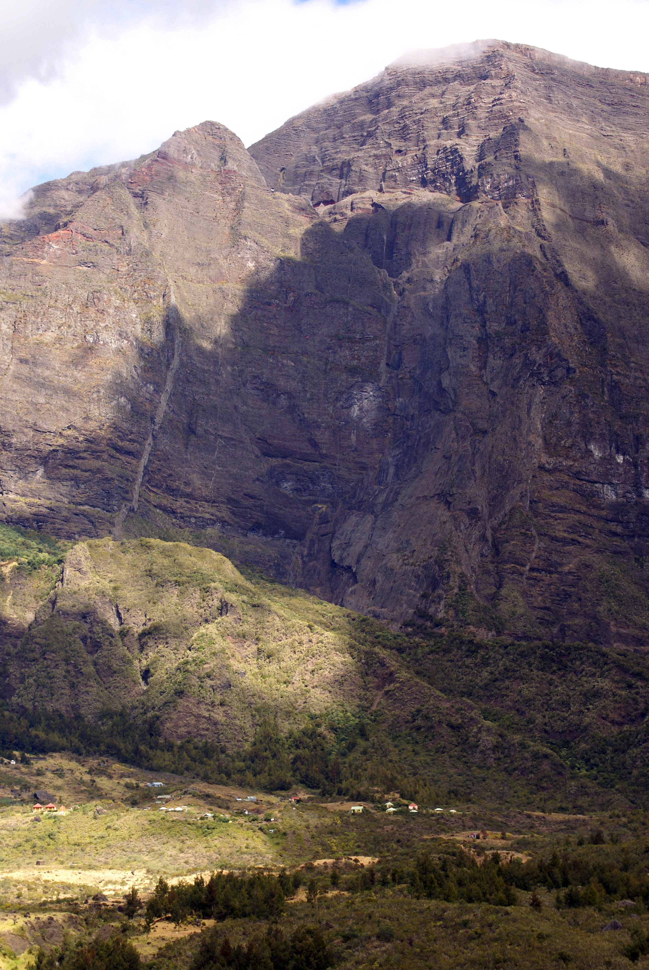 The 4,000 feet high cliff of Grand Bénard above the hamlet of Marla, in the cirque of Mafate on Réunion island, with several dykes clearly visible